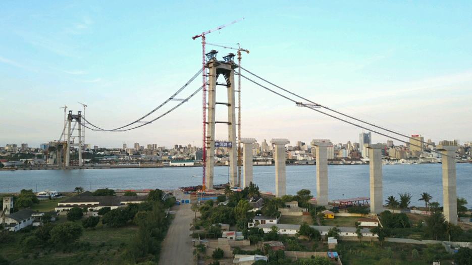 Maputo-Katembe Bridge in construction; Maputo, Mozambique